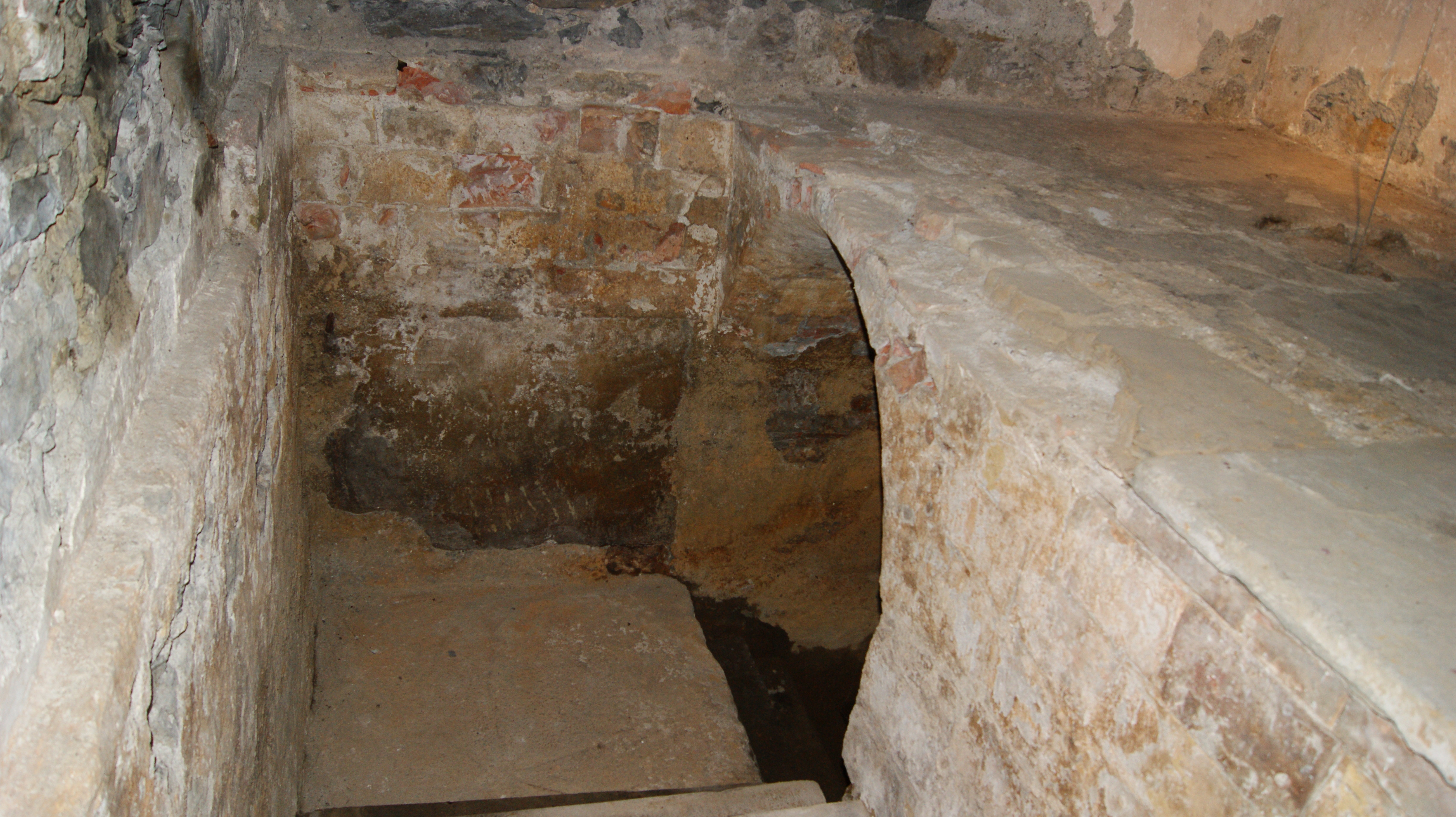 Hohenems, Schulgasse 1, Mikwe (Jewish ritual bath). Steps to the Bath.